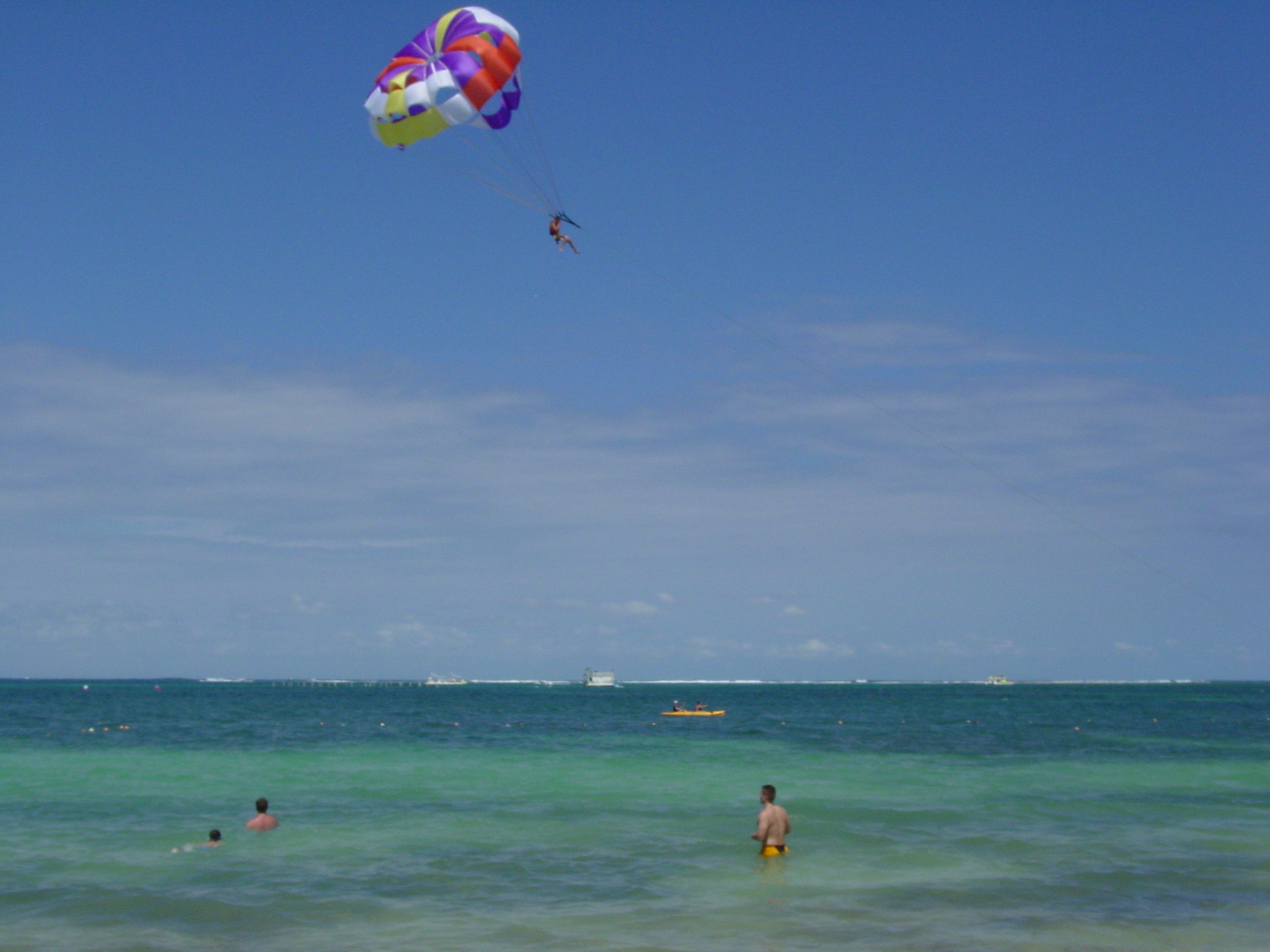 A person parasailing in Punta Cana, Dominican Republic.